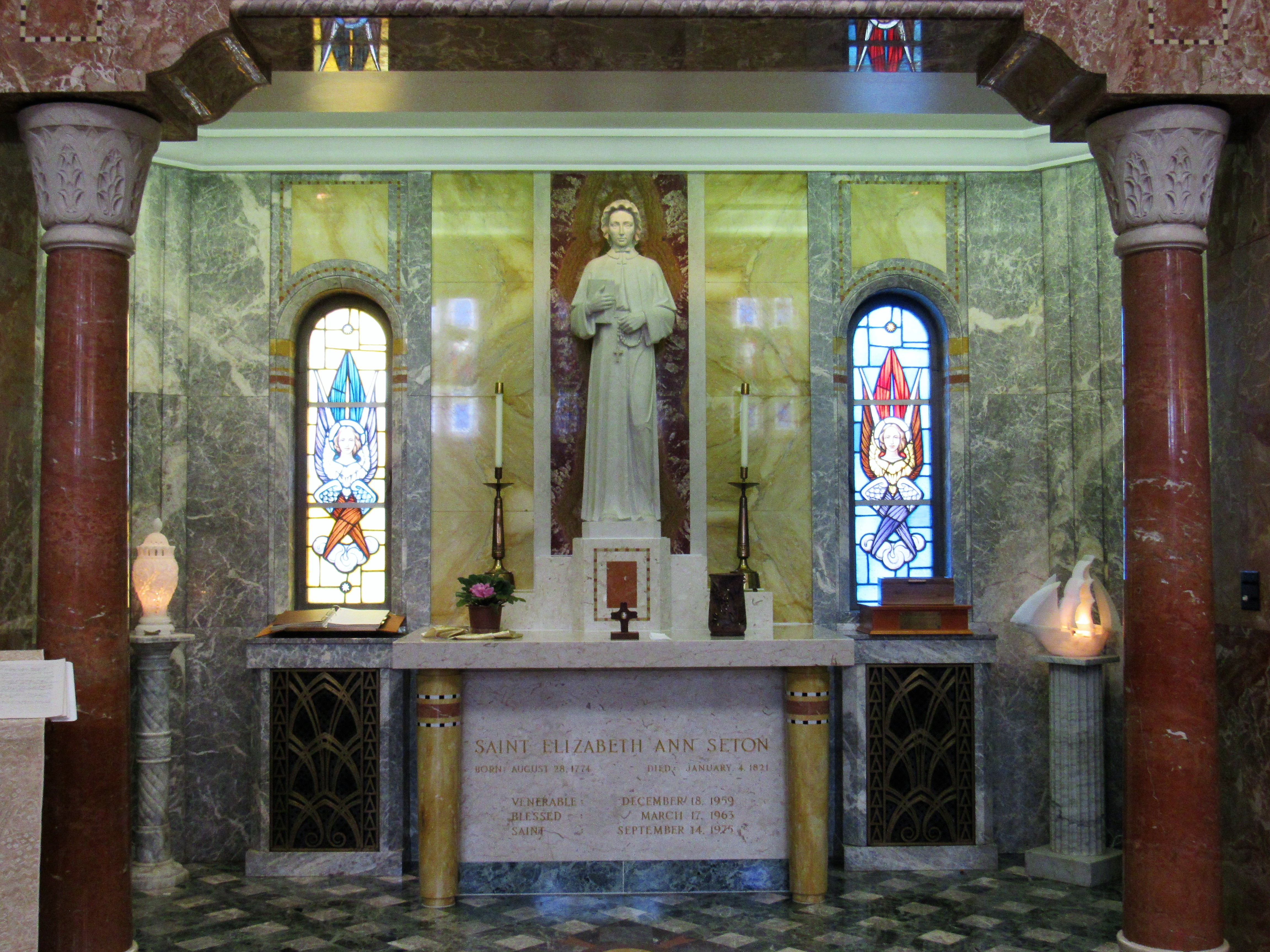 The shrine of the St. Elizabeth Ann Seton, including her tomb, in the Basilica of the National Shrine of St. Elizabeth Ann Seton in Emmitsburg, Maryland.